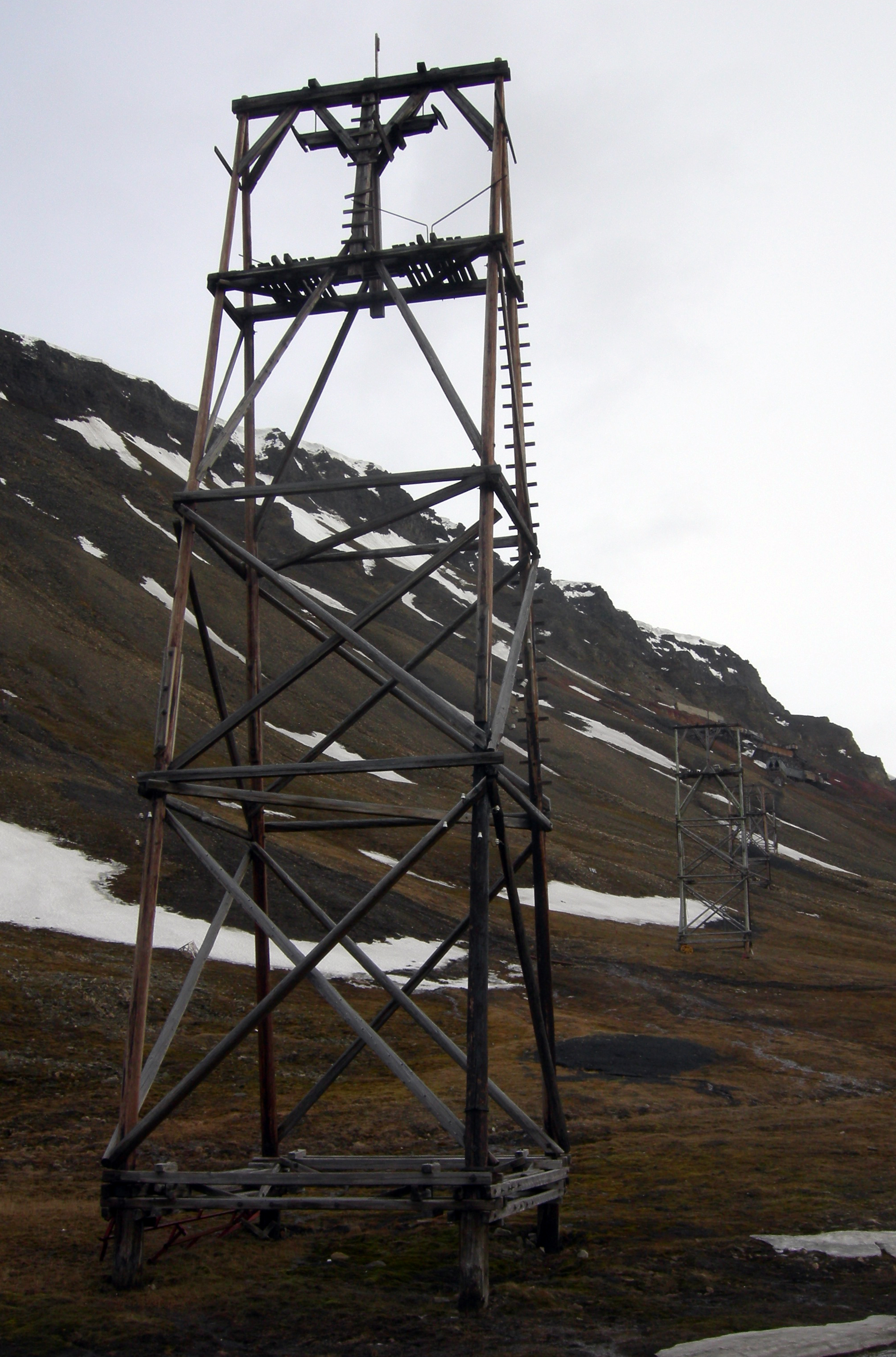 Cableway to abandoned coalmine south of Longyearbyen, Svalbard, Norway.